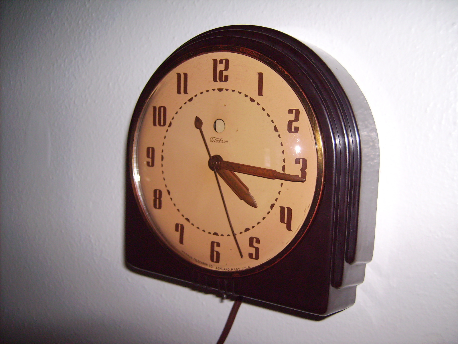 Synchronous electric clock, the Telechron model 2H07-Br "Ambassador", manufactured between 1937 and 1940. The small circular window above the center is a "power interruption indicator". If the electric power went off temporarily while the owner was out, the clock would read the incorrect time. To warn of this, an electromagnet mechanism would display a red color in this window, reminding the owner to reset the clock.